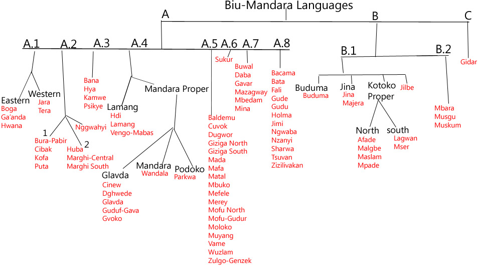 A chart of the Biu-Mandara branch of the Afroasiatic language family